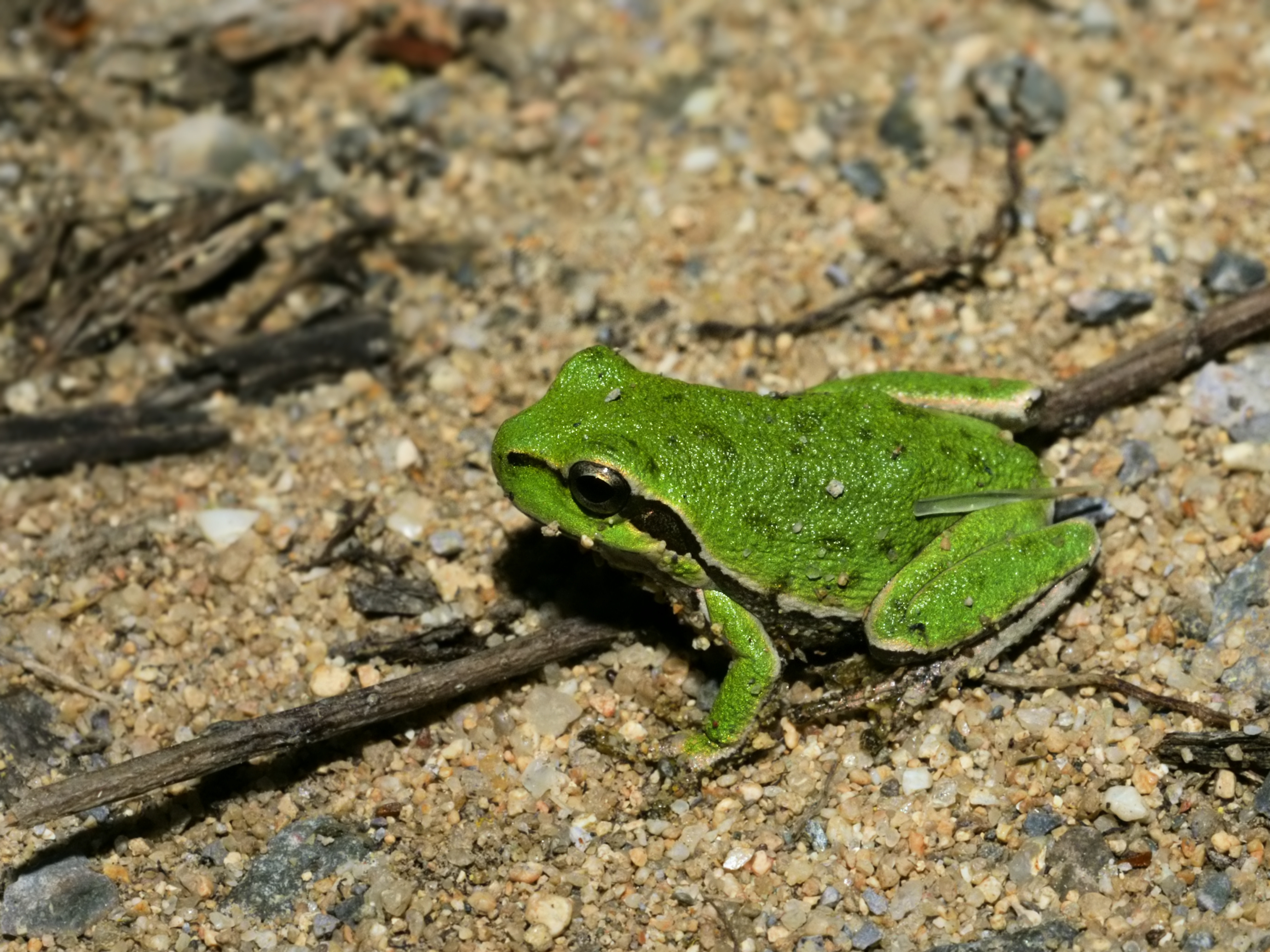 Tyrrhenian Tree Frog close to Torregrande, Sardinia, Italy. Size: 37 mm.